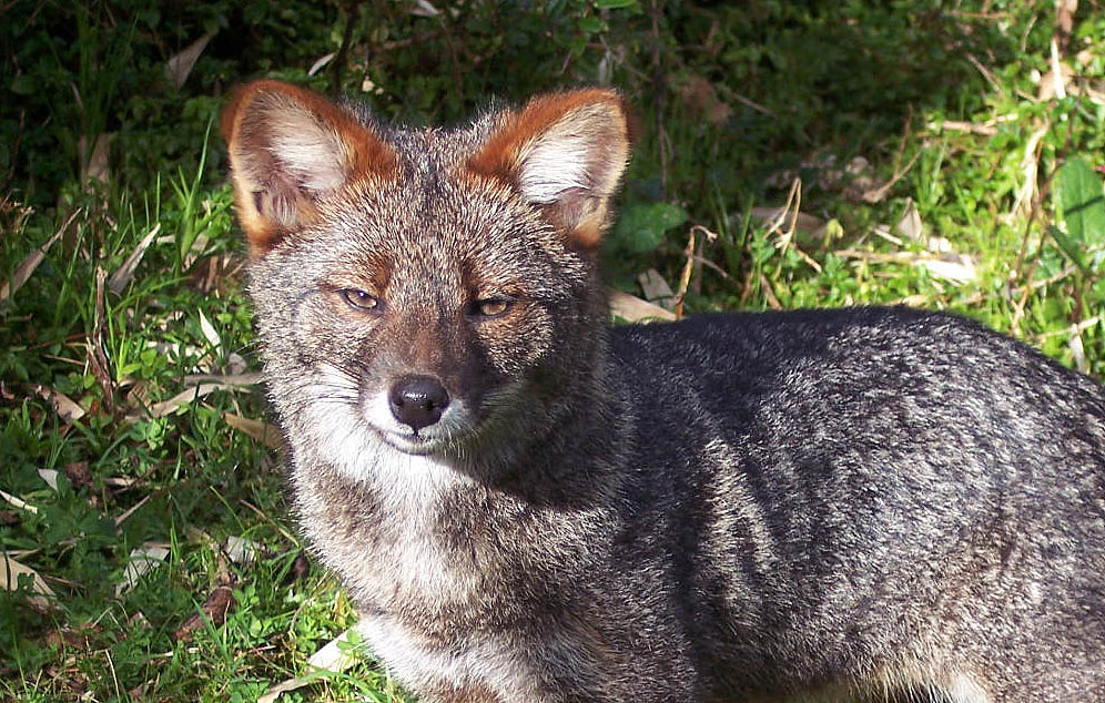 Darwin's fox in Ahuenco, Chiloe Island, Chile Mapudungun: Paynengürü Chillwe lafkenmapu mew